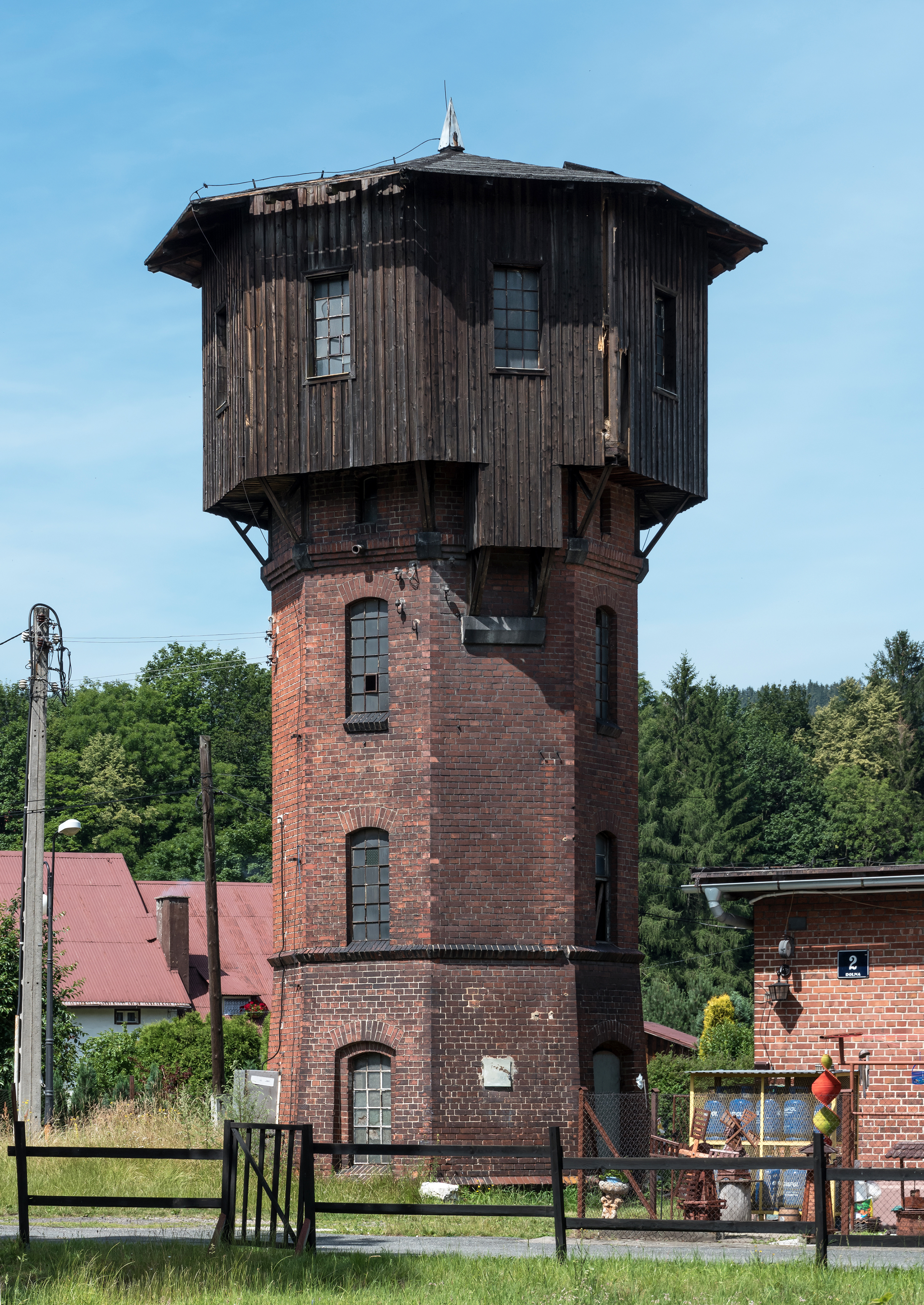 Water tower in Stronie Śląskie